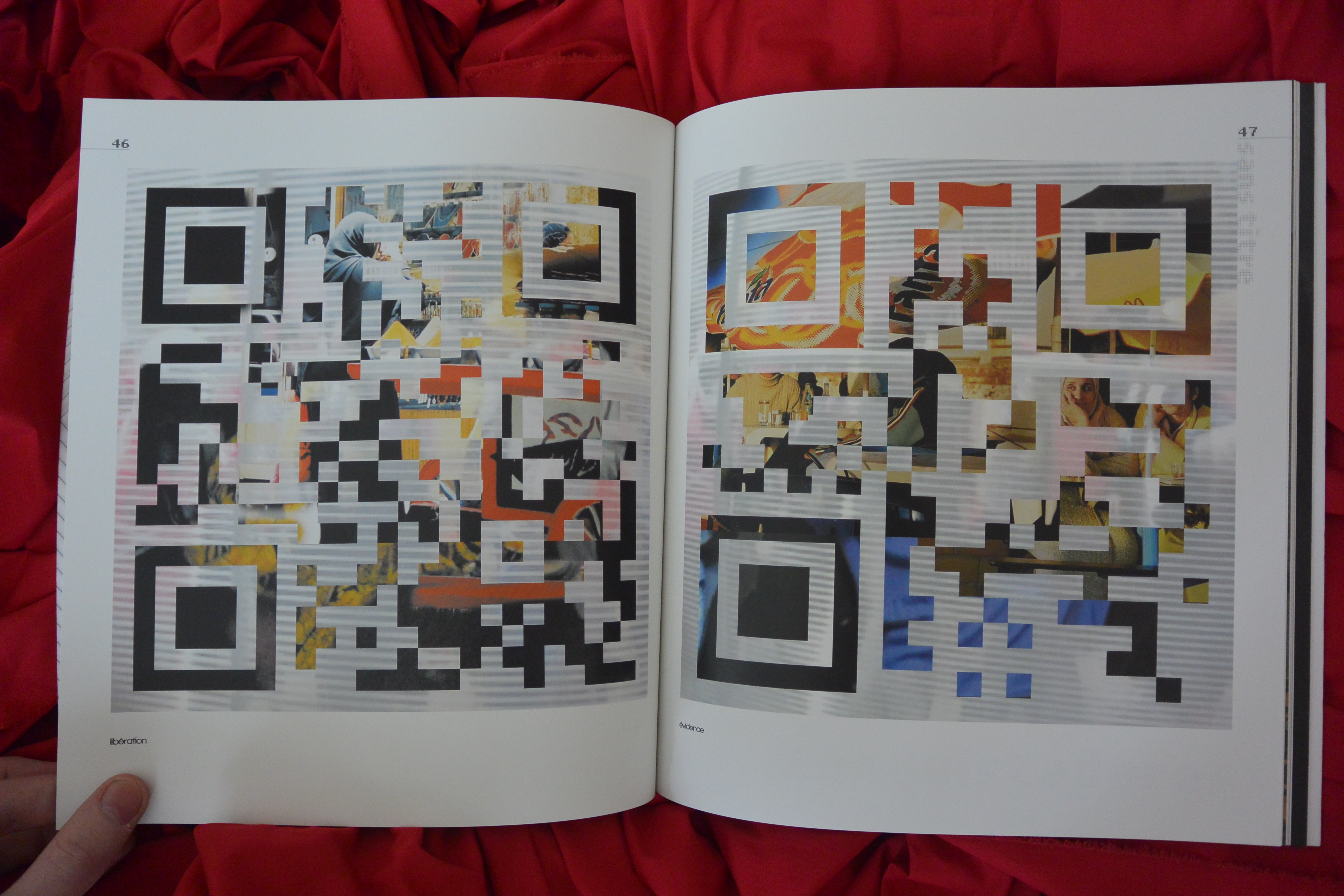 Liberation and evidence